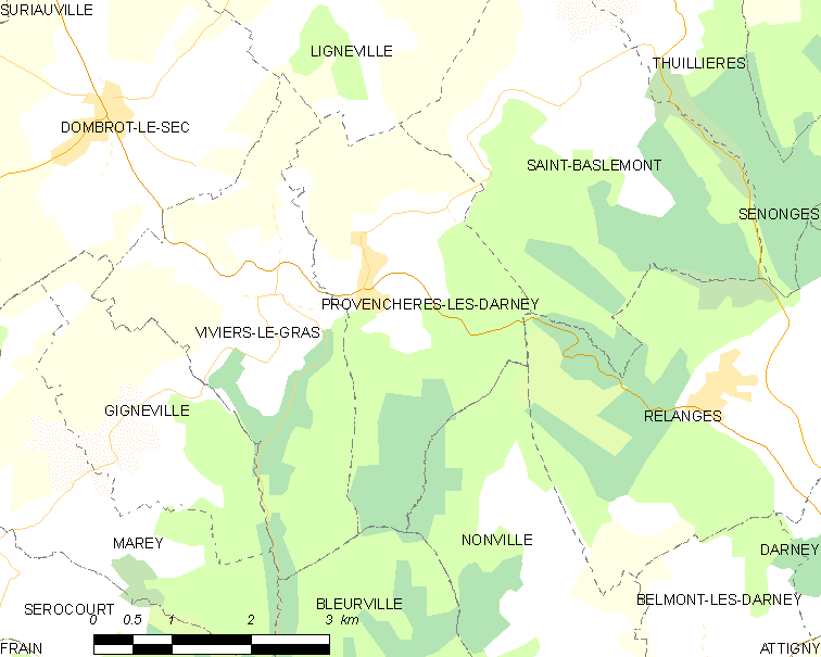 Map of French municipality Provenchères-lès-Darney